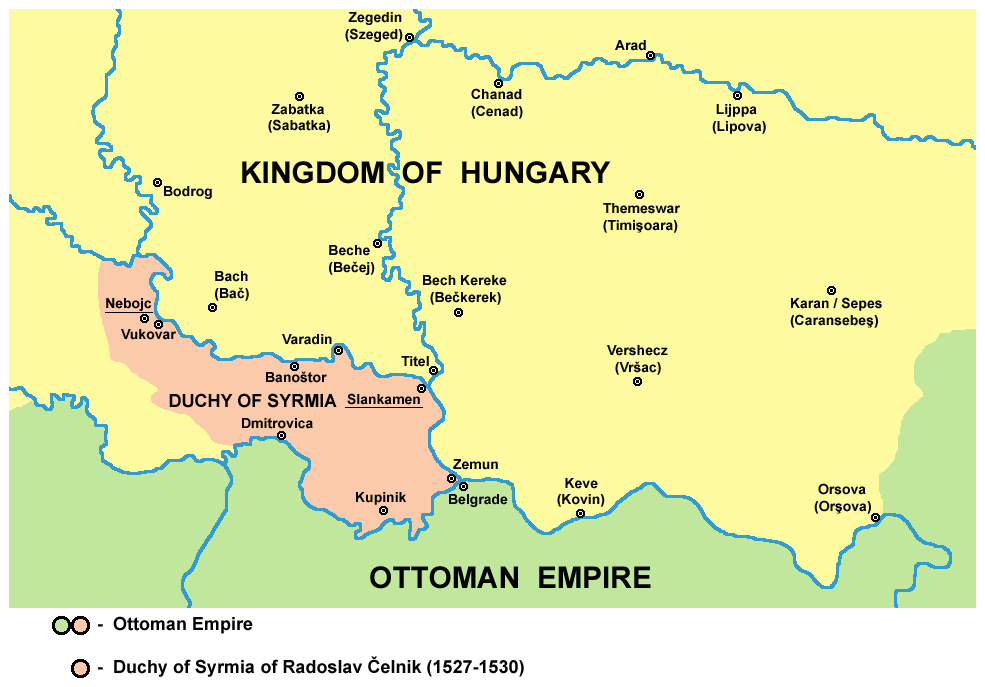 historic map - Duchy of Syrmia of Radoslav Čelnik (1527-1530) - English language version